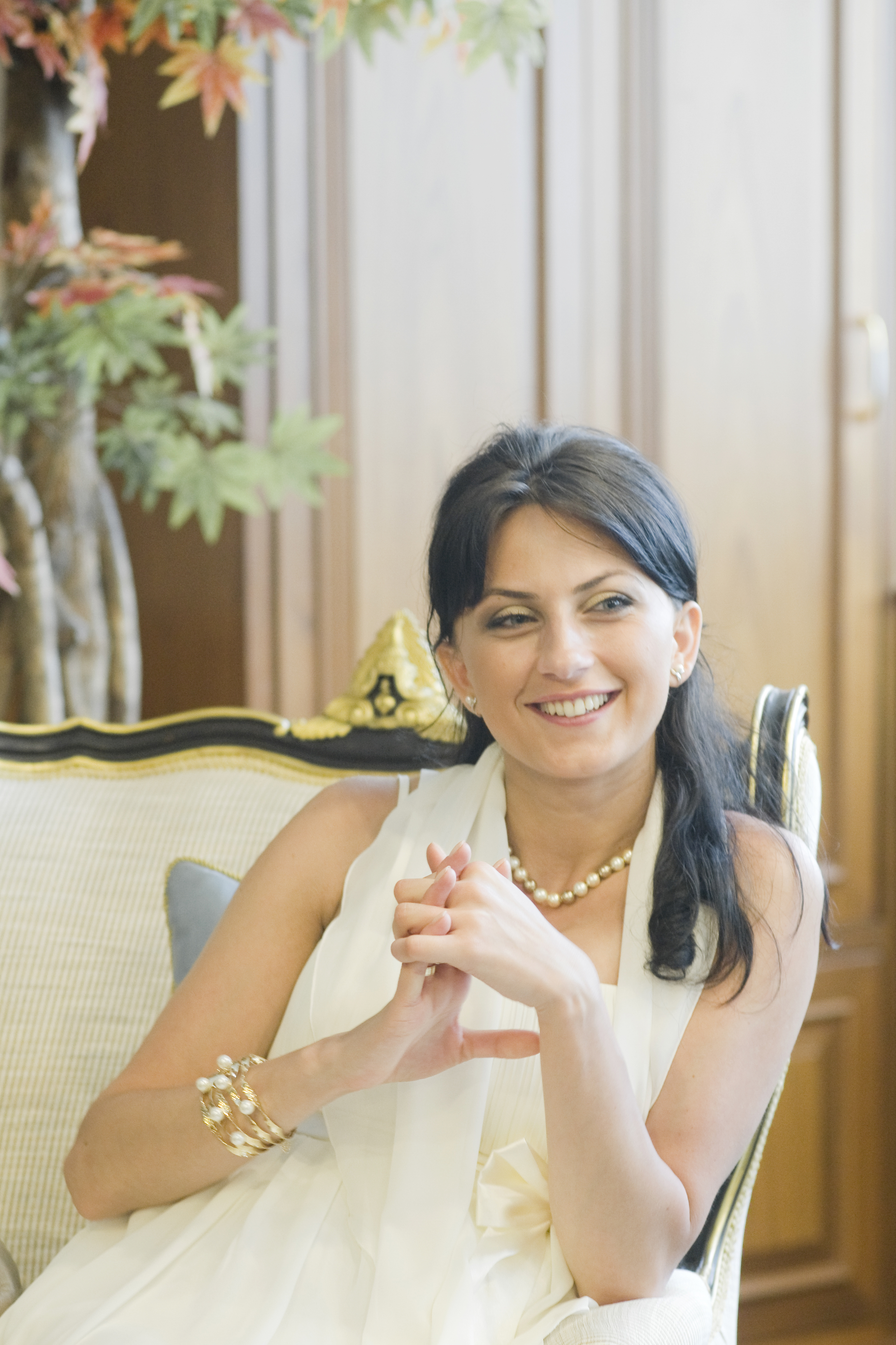 Marine Shamugia Gilauri, wife of Nikoloz Gilauri (former Georgian fashion model (b. 1985), member of beauty contest Miss Georgia-2004.). By The Official Site of The Prime Minister of Thailand Photo by พีรพัฒน์ วิมลรังครัตน์